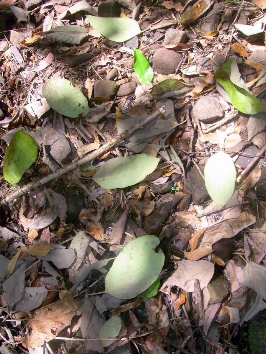 White Beech, fallen leaves. Gmelina leichhardtii. Carowiry Creek, below the the Barrington Tops, near Dungog. NSW Australia